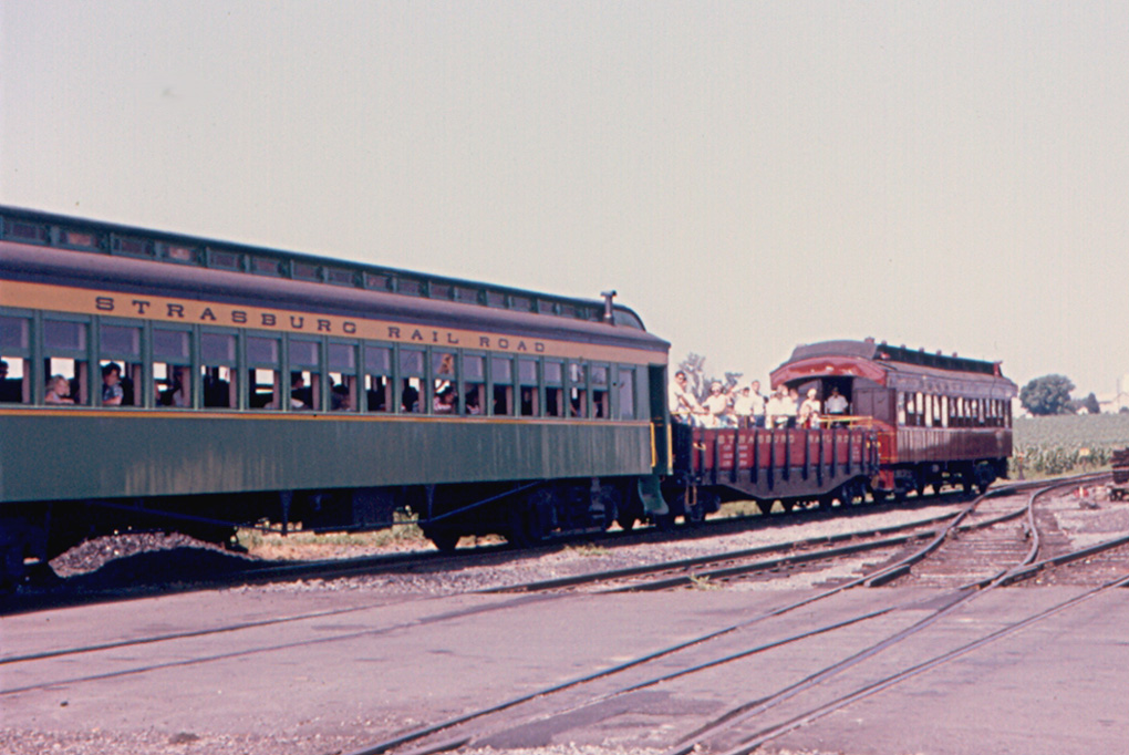 A tourist train on Strasburg Rail Road, 1966. This train had at least three classes of cars, including an open car (flatcar with seats). The train is returning to the station after a round trip from Strasburg to Paradise, 4.5 miles (7 km) away.